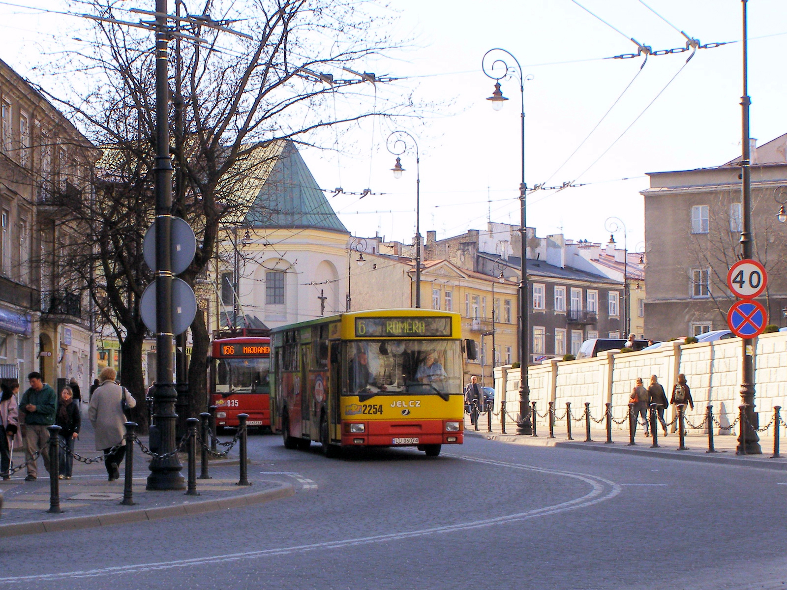 Jelcz 120M/3 bus (#2254) in Lublin, Poland. Built 2000, MPK Lublin operator.